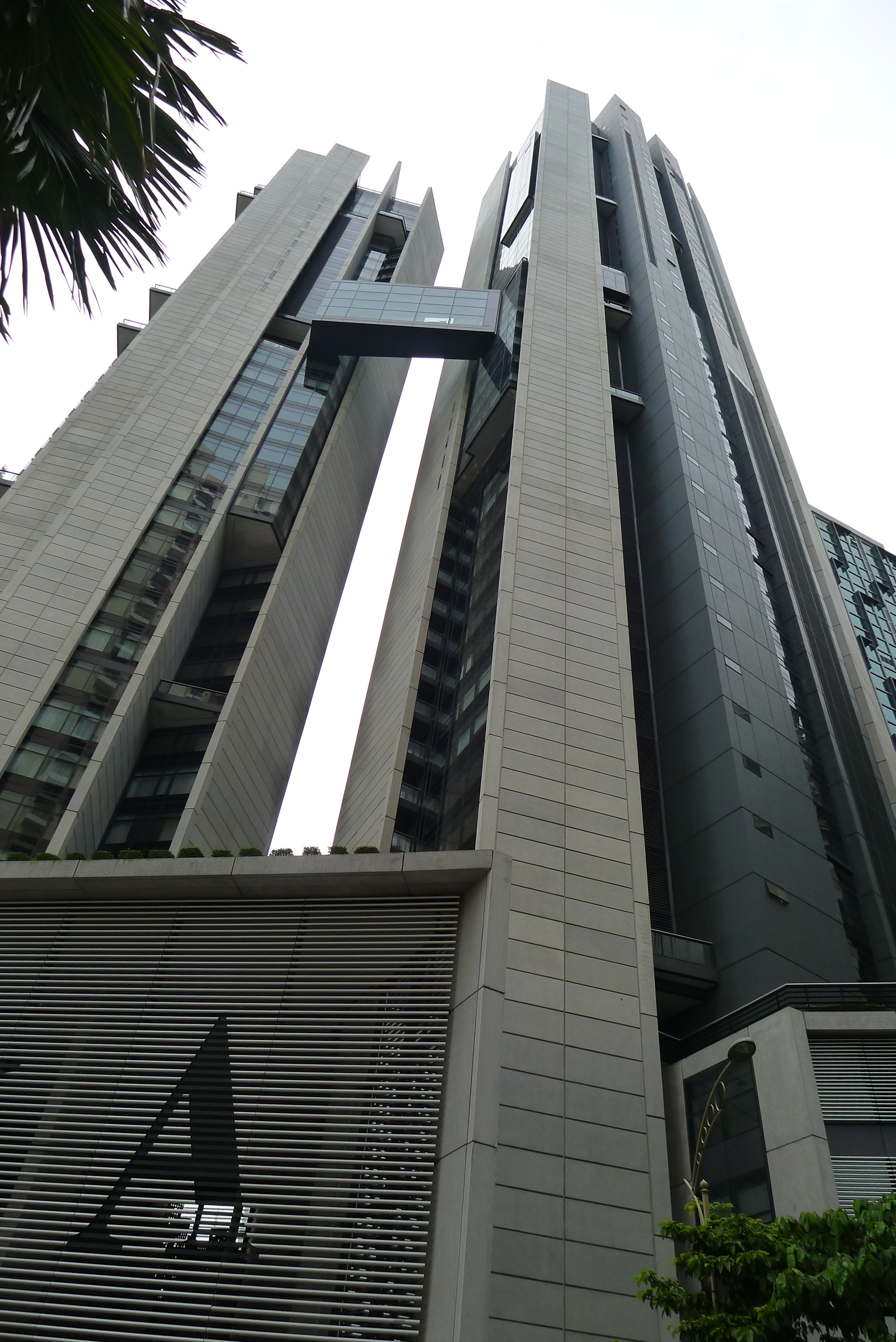 The Troika condominiums, designed by Foster+Partners viewed from street level at Jalan Binjai, Kuala Lumpur.